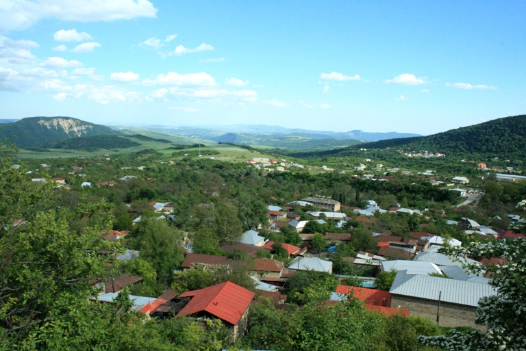 View of Basqal village in Azerbaijan's Ismailly region